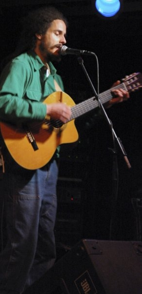 Bobby Sullivan performing live in Asheville, NC with Spontaneous Earth